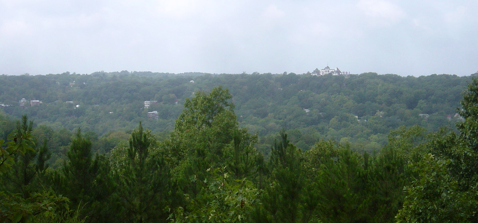 View of Eureka Springs from atop Magnetic Mountain (home of Christ of the Ozarks); the Crescent Hotel is visible on the horizon. Photo taken by Bobak Ha'Eri. September 2, 2006. Please observe license and properly cite in use outside Wikipedia.